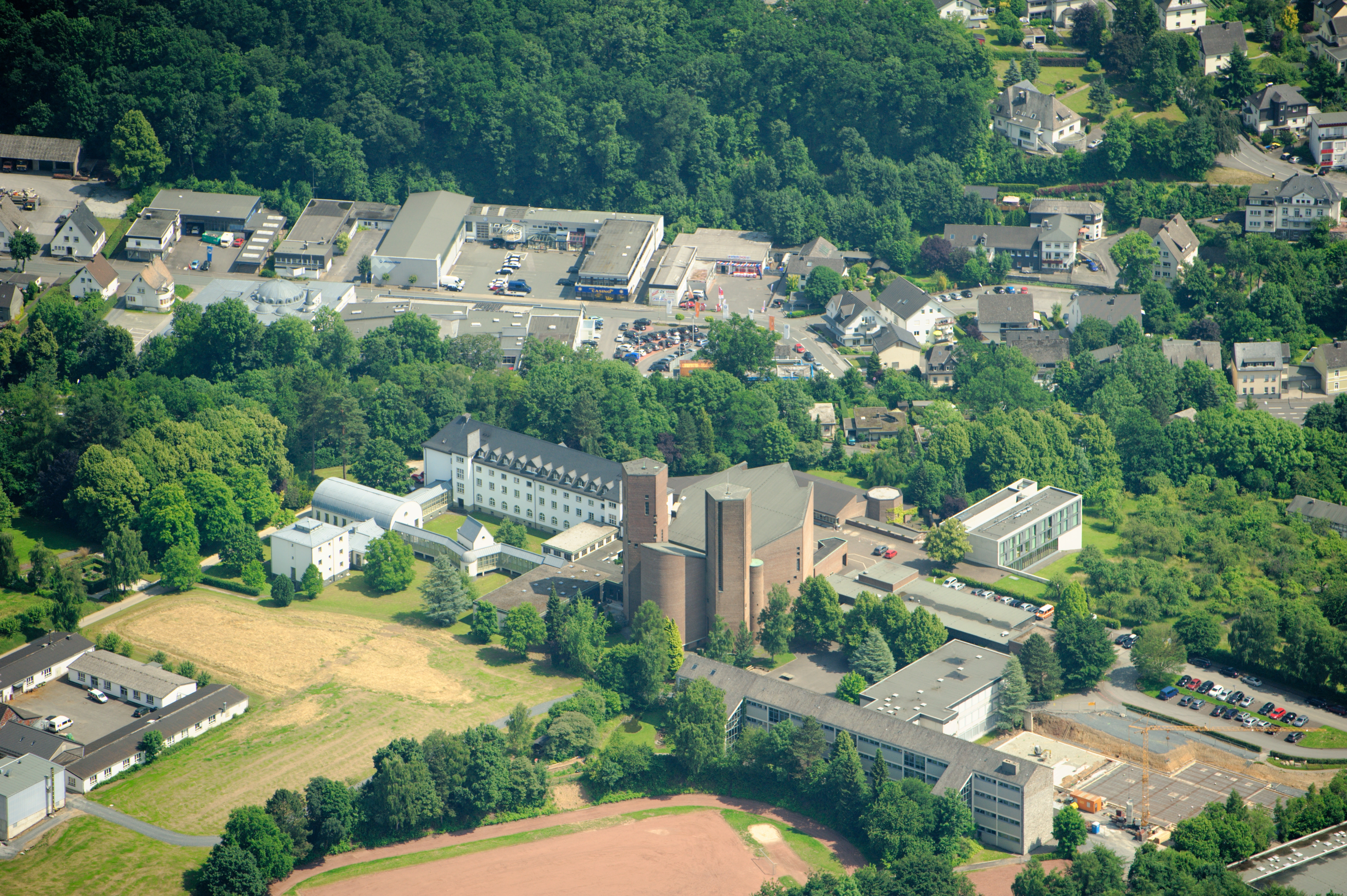 Fotoflug Sauerland-Ost - Meschede mit Abtei Königsmünster The making of this document was supported by the Community-Budget of Wikimedia Germany.